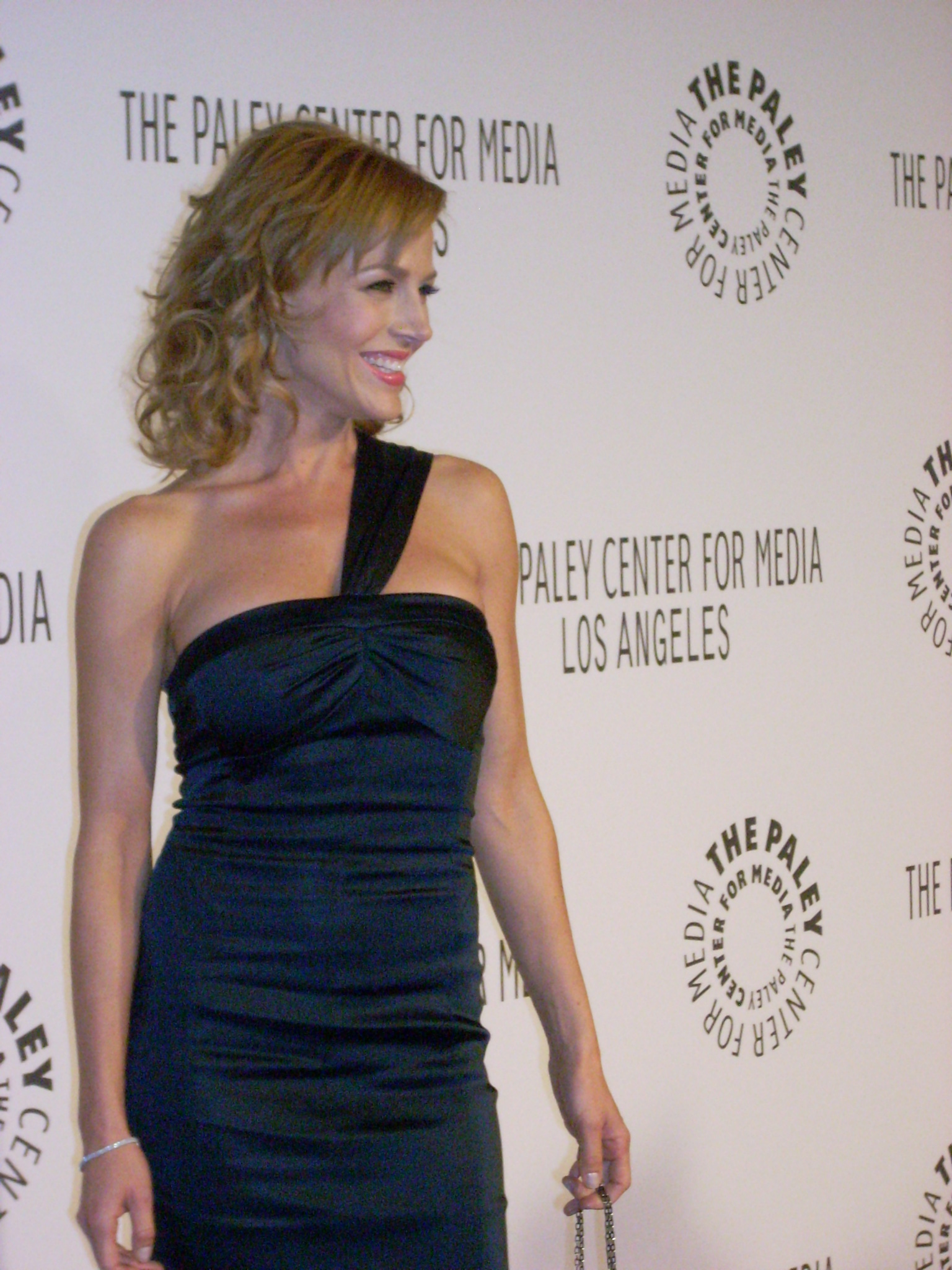 Julie Benz at the Paley Center for Media Gala Honoring Showtime Networks - Century Plaza Hotel, Los Angeles - Dec. 11, 2008